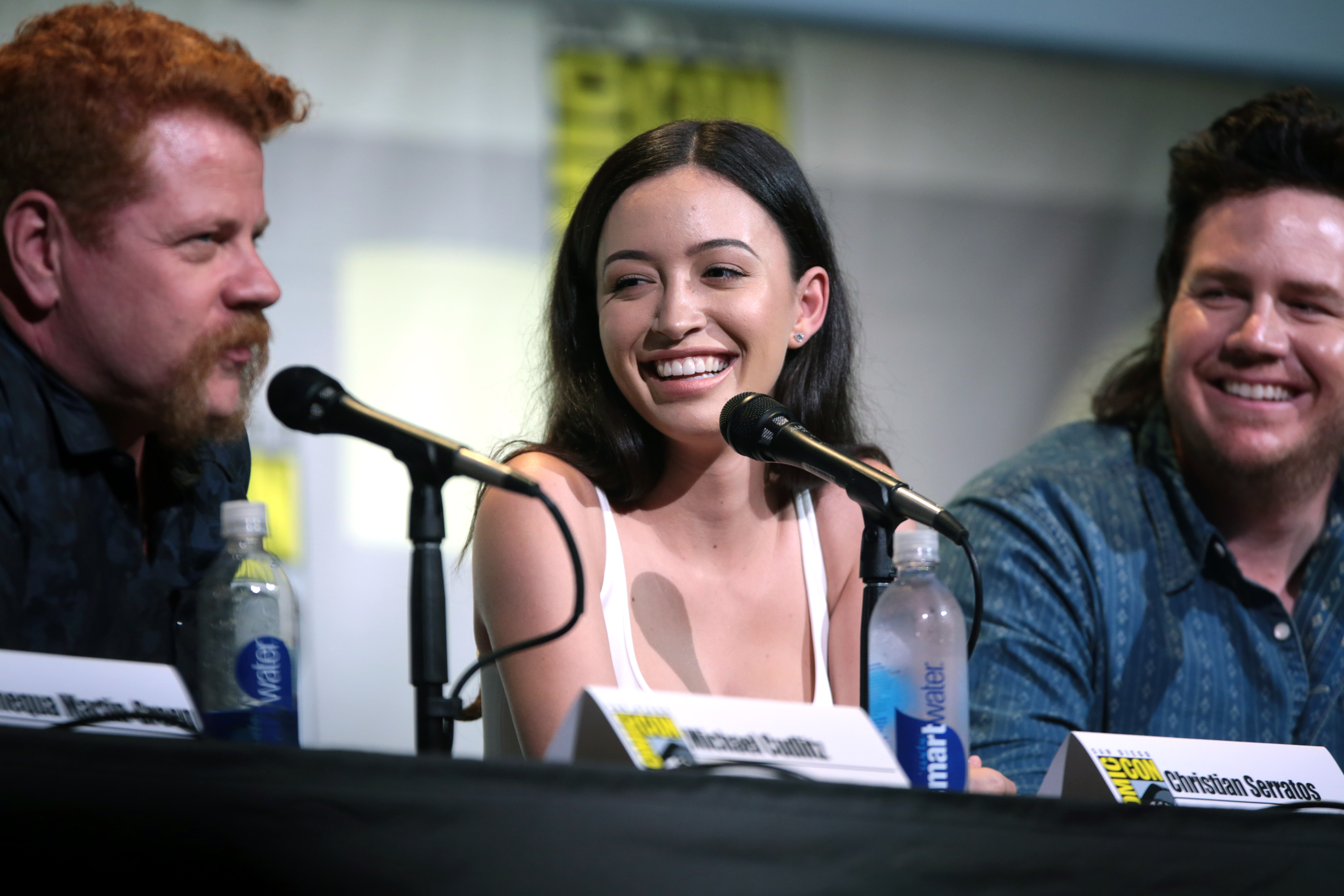 Christian Serratos, Michael Cudlitz and Josh McDermitt at San Diego Comic Con